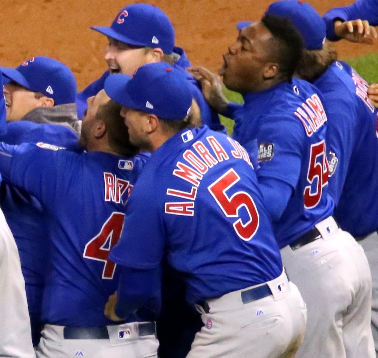 The Cubs celebrate after winning the 2016 World Series.